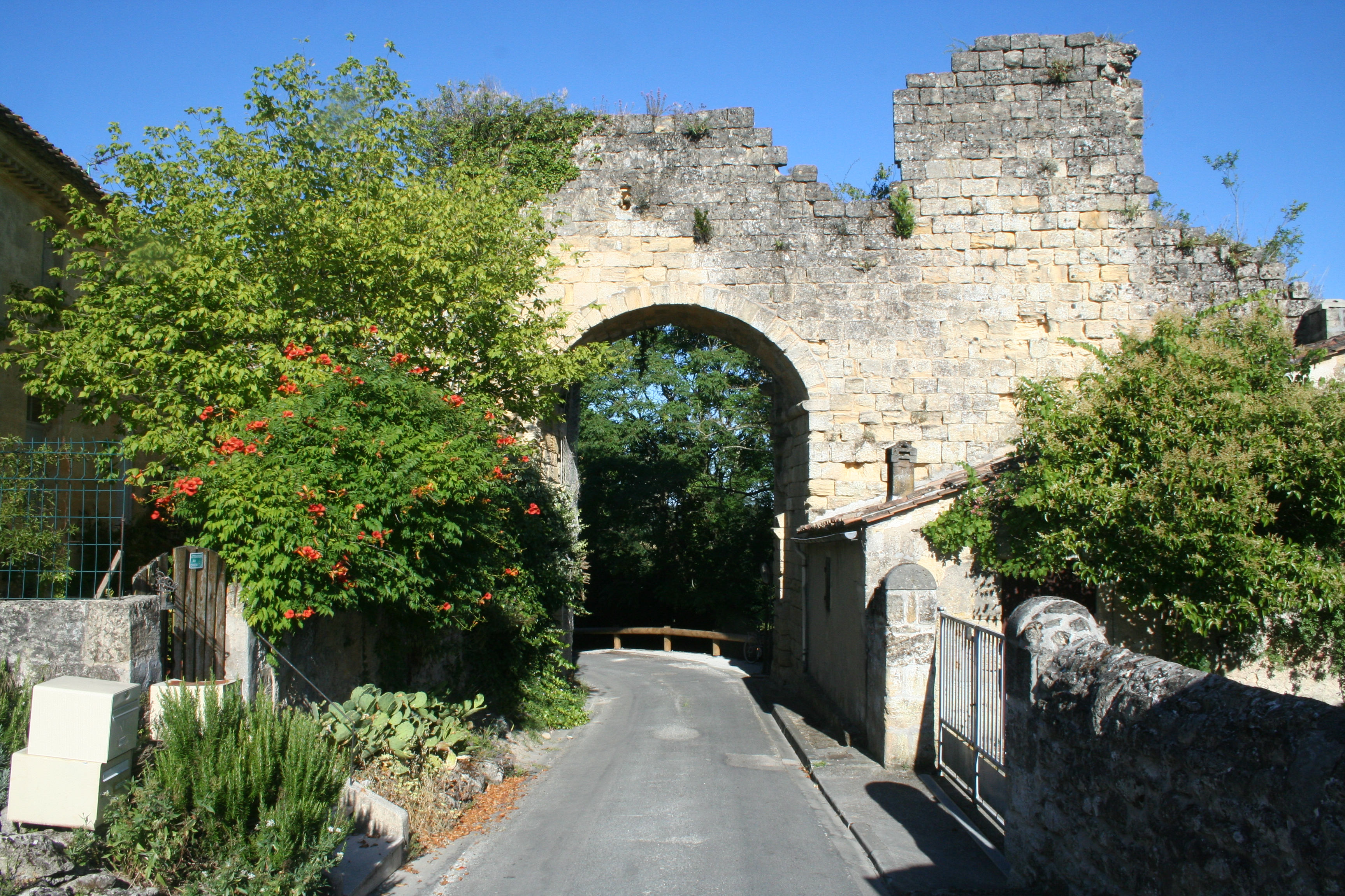 The château des quatre fils Aymon, at Cubzac-les-Ponts.